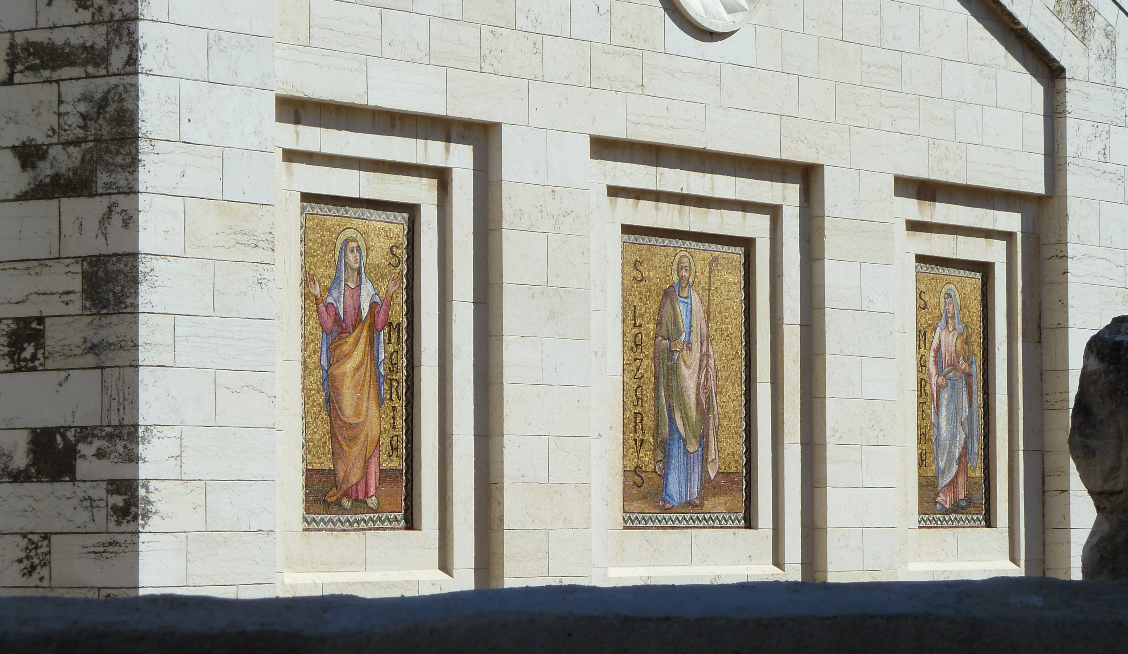 Bethany Lazarus church mosaics of Maria, Lazarus and Martha. work is permanently situated in a public place (Freedom of panorama in Palestine).